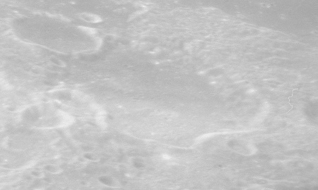 Oblique view of Schumacher crater, on the moon. Taken by Apollo 16 panoramic camera during Trans-Earth Injection. Brightness and contrast adjusted in GIMP.